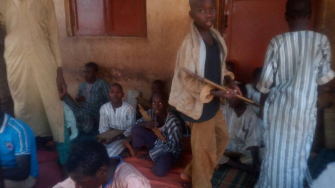 At Badariya, Birnin kebbi, Kebbi State to give them succor and collect the children's data (names, age, state of origin, parental address)